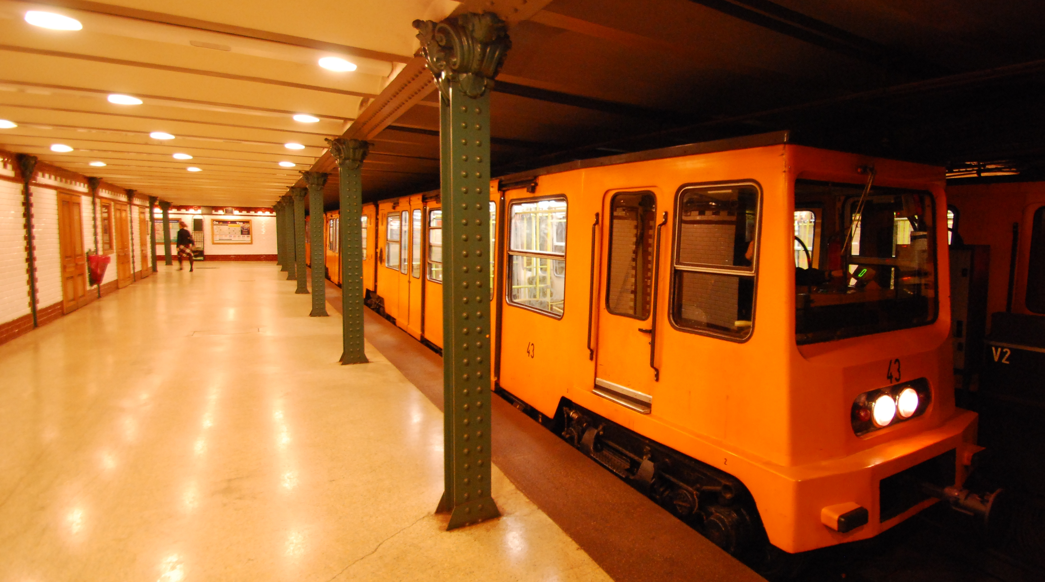 The oldest metro line in Budapest (M1). The last station at Vörösmarty square.